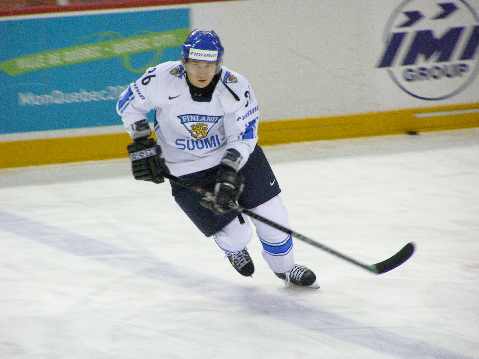 Jussi Jokinen, 2008 IIHF World Championship.